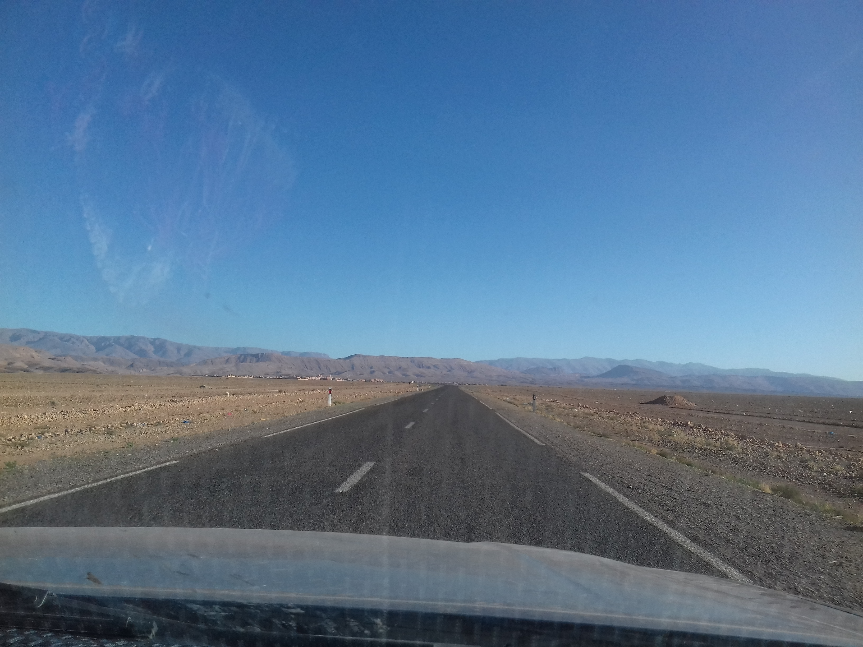 A trip to the Little Atlas Mountains This is an image with the theme "Africa on the Move or Transport" from: Morocco